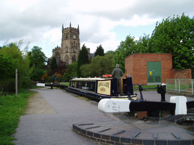 Kidderminster Lock 2005